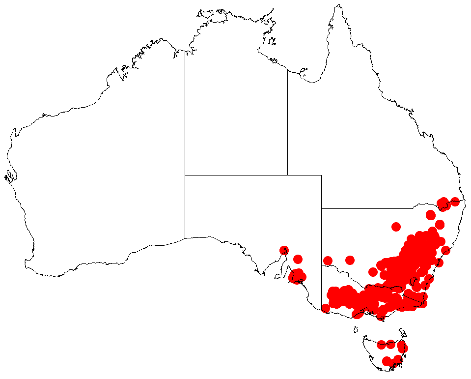 Acacia verniciflua occurrence data from Australasia Virtual Herbarium downloaded from on 8 December 2018